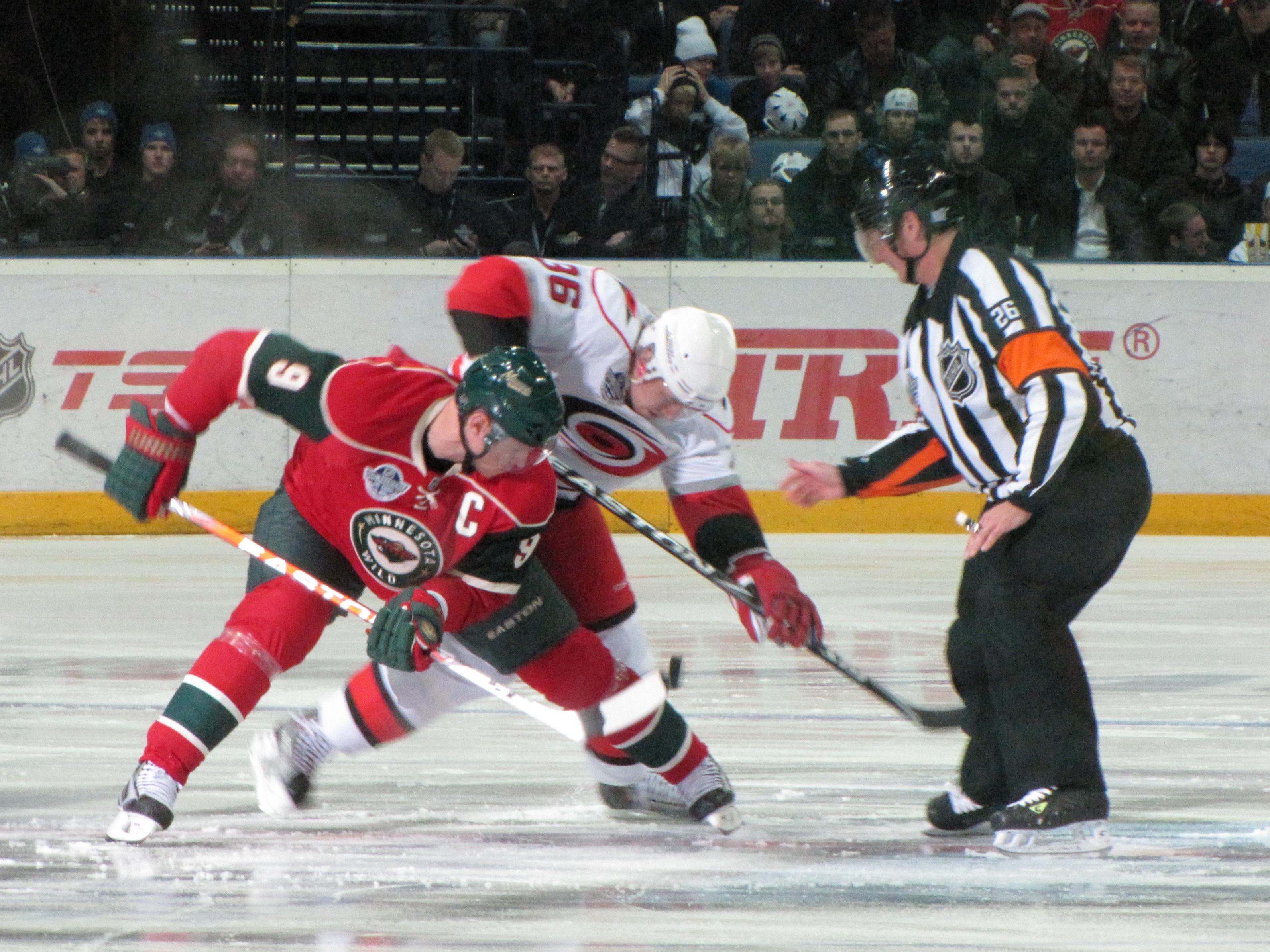 The first face off of the 2010–2011 NHL season, with Mikko Koivu for the Minnesota Wild and Jussi Jokinen for the Carolina Hurricanes, at the NHL Premiere in Helsinki, Finland.